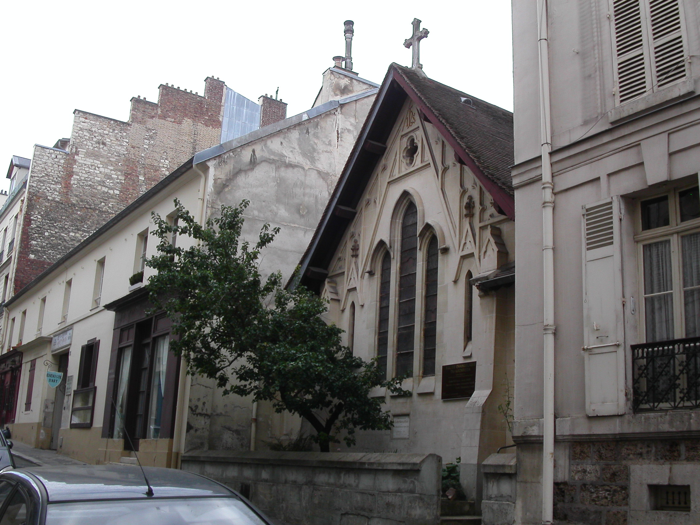 Old St.Marks Church rue du Peintre le Brun, Versailles